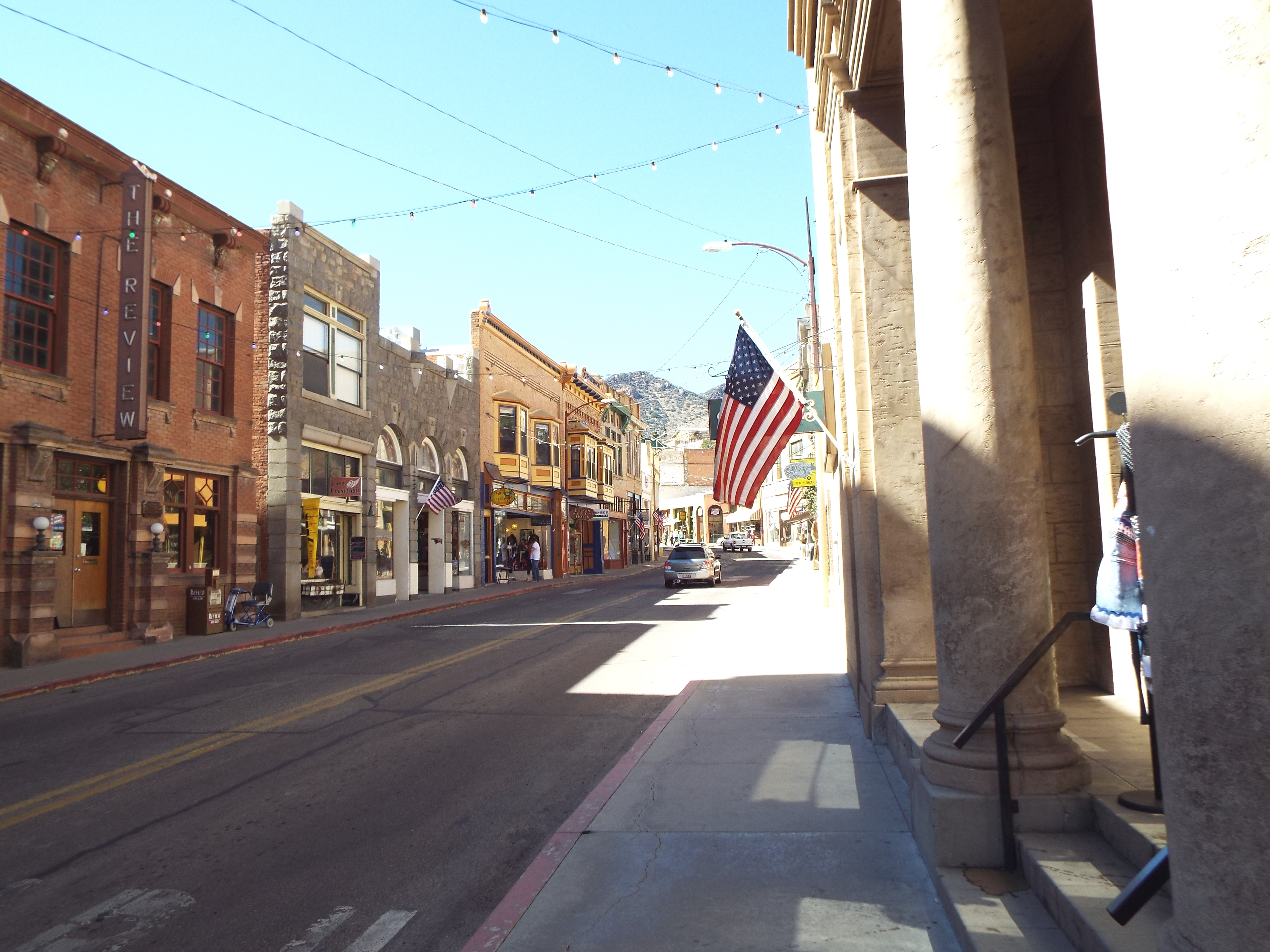 View of Bisbee’s Main Street. The street is listed in the National Register of Historic Places in July 3, 1980, as part of the Bisbee Historic District, reference #80004487.